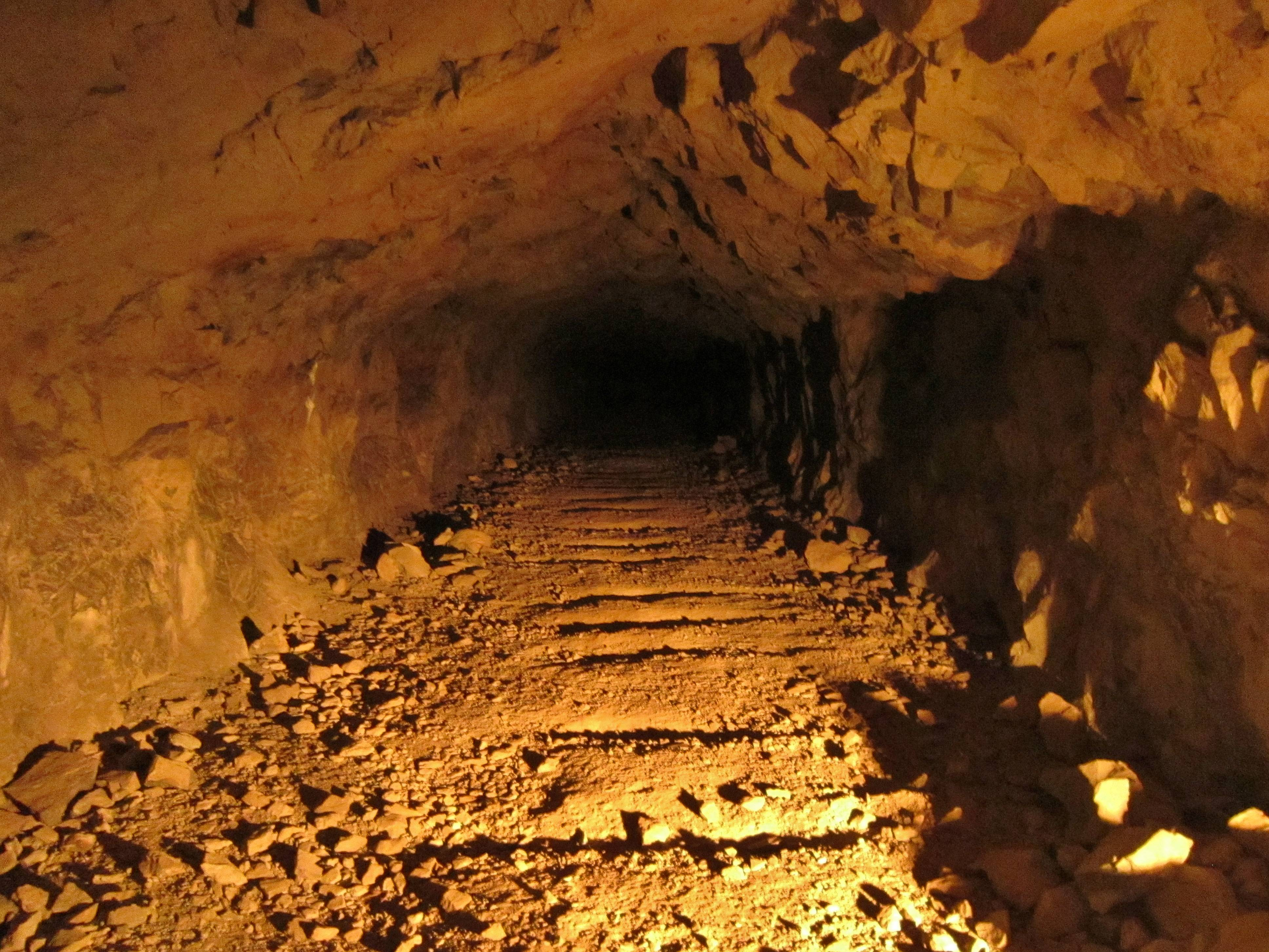 Matsushiro Underground Imperial Headquarters.